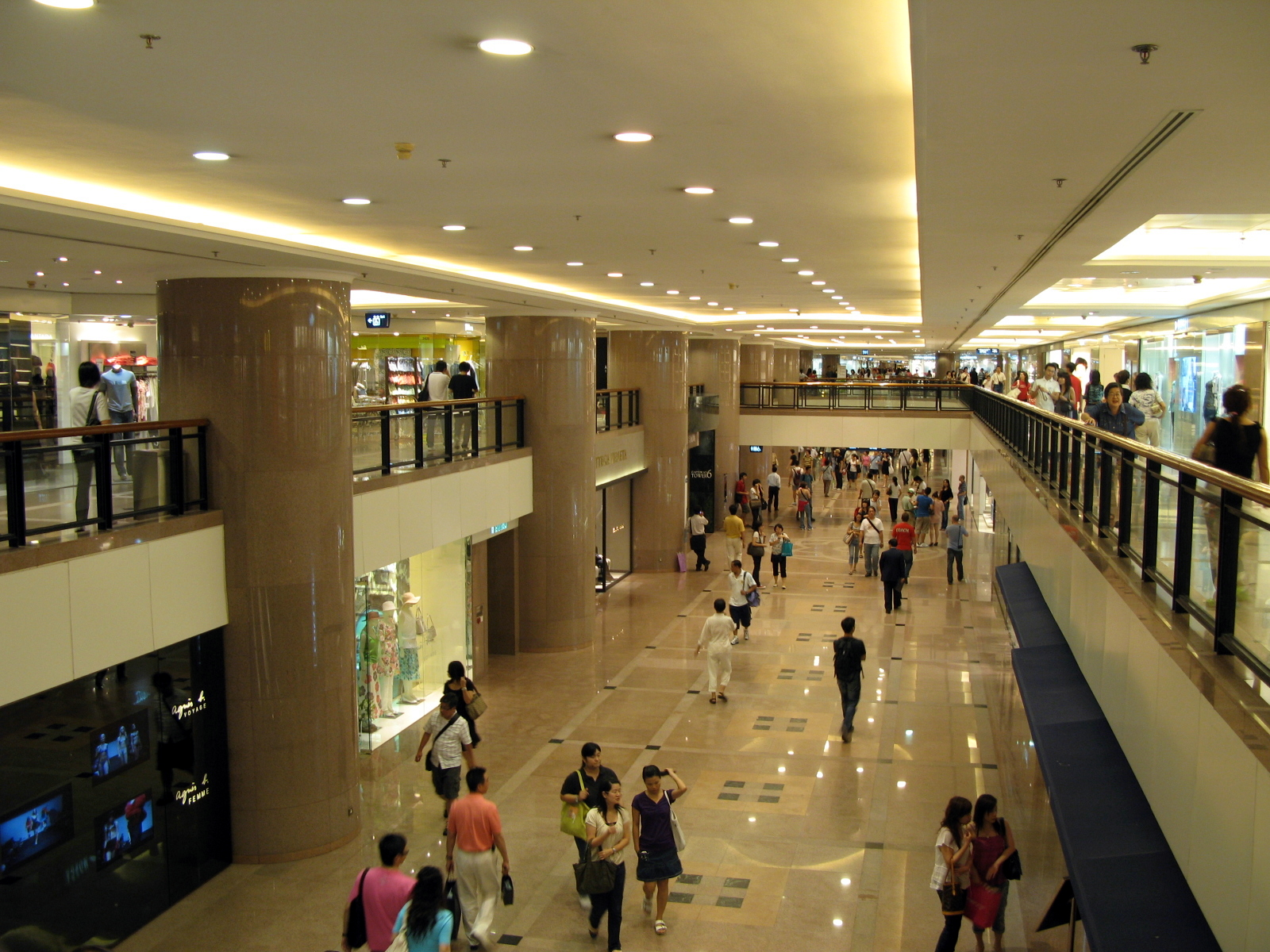 Harbour City Gateway II Void 港威大廈商場